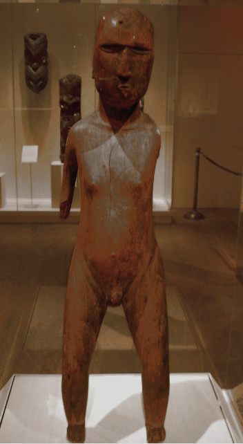 Tiki of Rogo, divinity of Mangareva, Gambier Islands; at the Metropolitan Museum of Art, New York